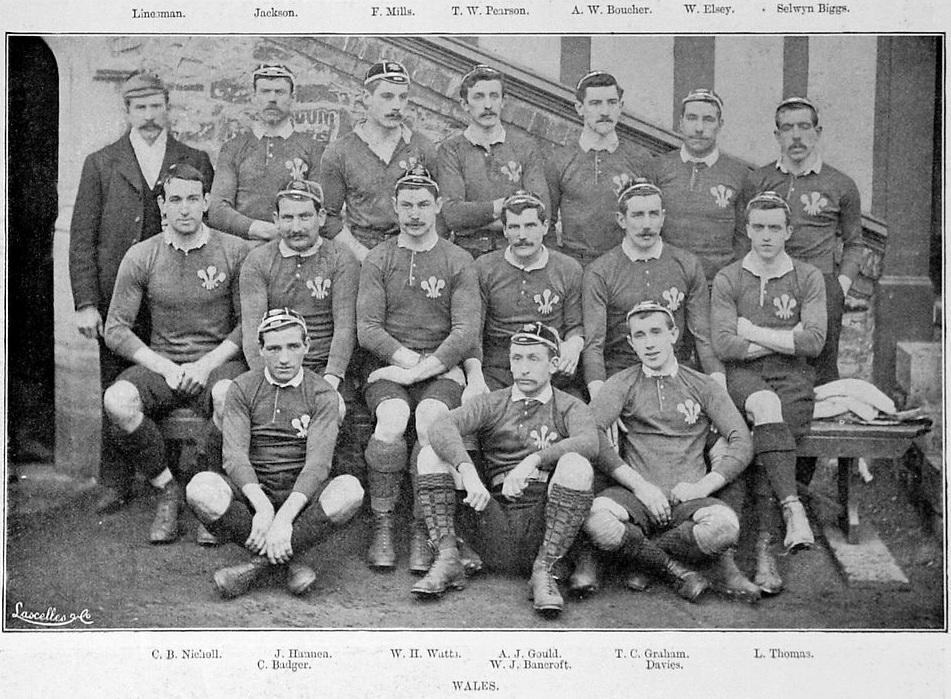 Team photograph of the Wales national rugby union team before their 1895 Home Nations Championship encounter with England